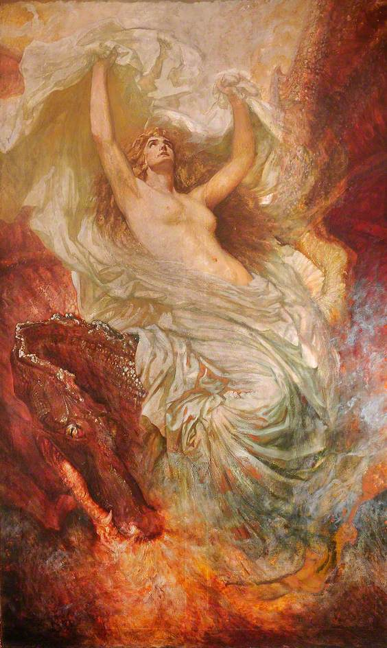 the Awakening of WalesCymraeg: Deffroad Cymru